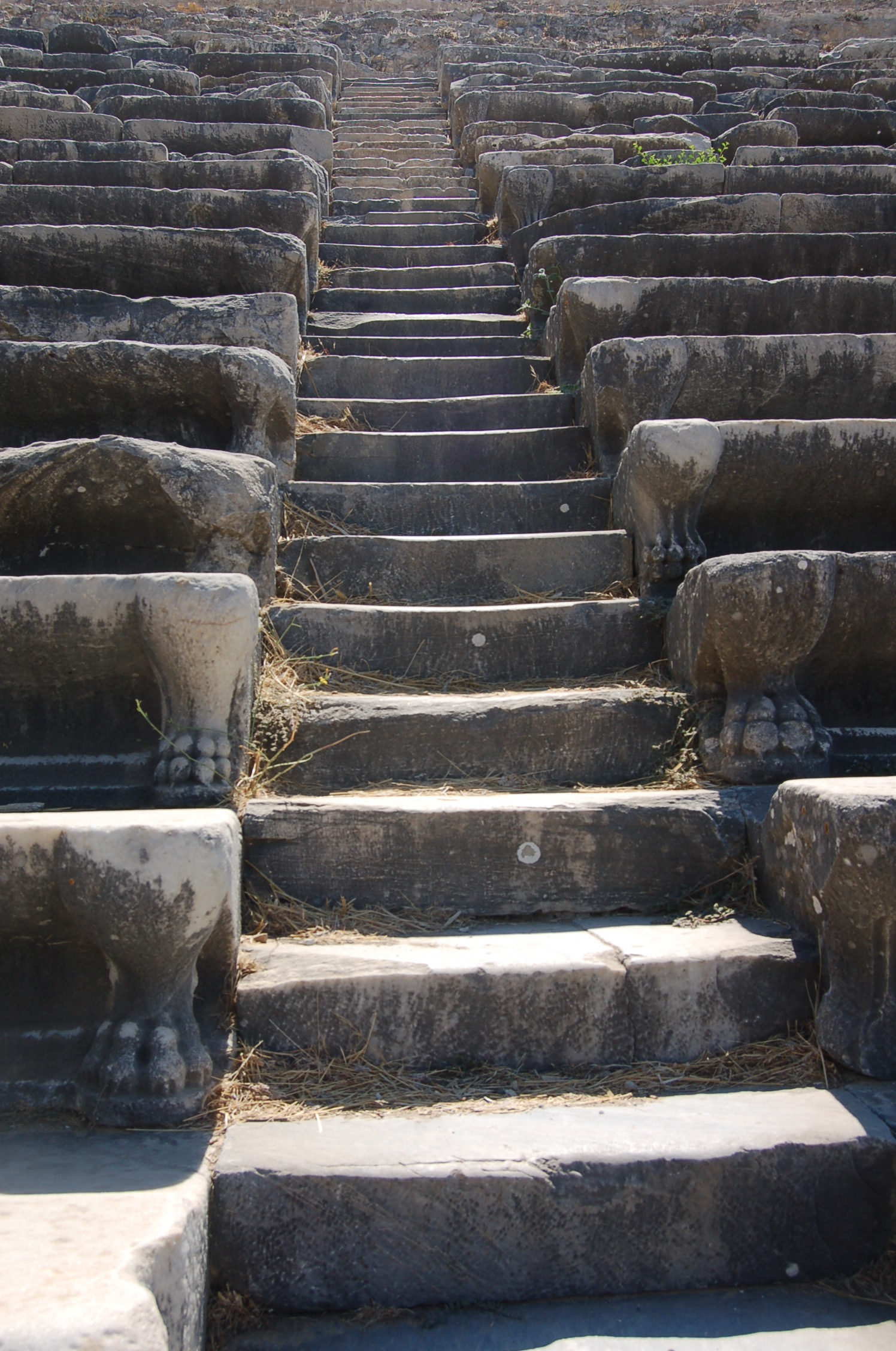 Stairway in the auditorium of Miletus ancient greek theatre, Turkey.